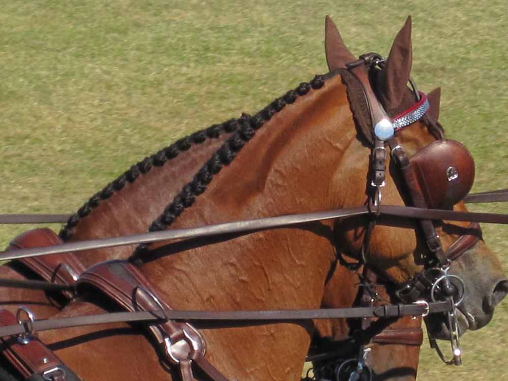 World Equestrian Games Dressage Driving in 2010